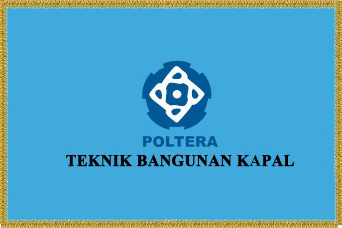 This file is in the public domain in Indonesia, because it is published and distributed by the Government of Republic of Indonesia, according to Article 43 of Law 28 of 2014 on copyrights. There shall be no infringement of Copyright for: Publication, Distribution, Communication, and/or Reproduction of State emblems and national anthem in accordance with their original nature; Any Publication, Distribution, Communication, and/or Reproduction executed by or on behalf of the government, unless stated to be protected by laws and regulations, a statement to such Works, or when Publication, Distribution, Communication, and/or Reproduction to such Works are made; Reproduction, Publication, and/or Distribution of Portraits of the President, Vice President, former Presidents, former Vice Presidents, National Heroes, heads of State institutions, heads of ministries/nonministerial government agencies, and/or the heads of regions by taking into account the dignity and appropriateness in accordance with the provisions of laws and regulations This work includes material that may be protected as a trademark in some jurisdictions. If you want to use it, you have to ensure that you have the legal right to do so and that you do not infringe any trademark rights. See our general disclaimer.This tag does not indicate the copyright status of the attached work. A normal copyright tag is still required. See Commons:Licensing.